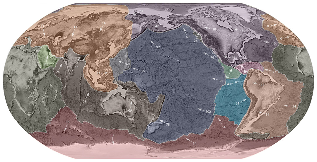 World's Major Tectonic Plates Plates and their motion at various points (in millimeters per year) relative to the African Plate.